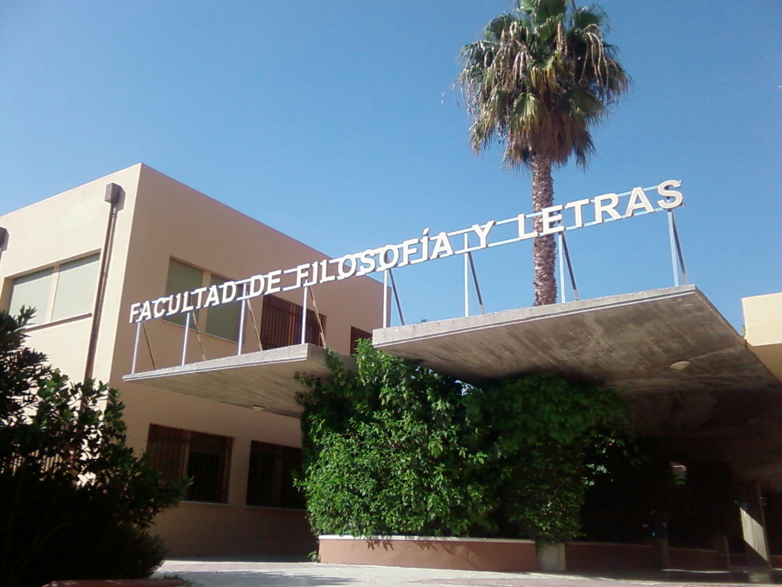 Faculty of Arts, University of Málaga, Spain